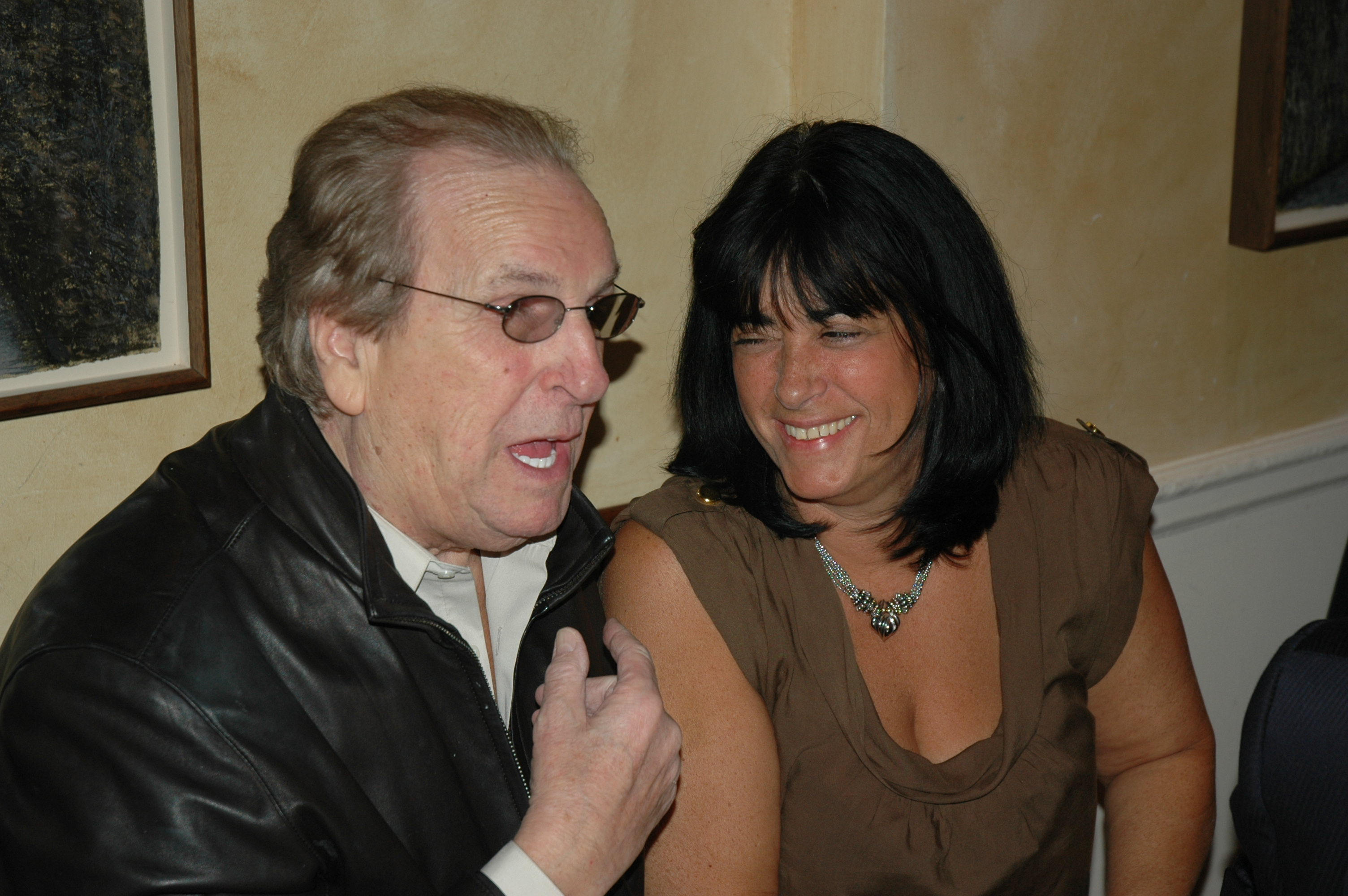 Photos from the October 18, 2010 world premiere of the new documentary, "The Soprano State", about political corruption in New Jersey. The film premiered at The Ziegfield Theatre in Manhattan, and afterwards the celebration continued at Patsy's, the old school Italian joint on 56th St. There were lots of very cool celebs on hand to celebrate, including members of the cast of "The Sopranos like Dominic Chianese, who played Junior Soprano; Federico Castelluccio, who portrayed the imported enforcer Furio Giunta; and Frank Pellegrino, who played FBI Agent Frank Cubitosi. New Jersey Governor Chris Christie was on hand as well. Other notables at the premiere were actor Danny Aiello; state Sen. Joseph M. Kyrillos Jr., R-Monmouth; and Bill Baroni, deputy director of the Port Authority of New York and New Jersey. I was technically there work, as I'm doing the online and social media PR for the film, but I managed to enjoy myself as well. It was definitely cool meeting a lot of the cast from one of my all time favorite tv shows.